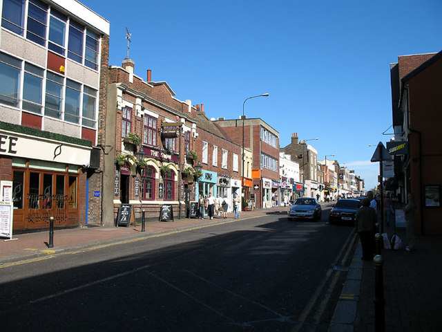 High Street, Brentwood On a warm and sunny lunchtime in March. The Litten Tree public house nestles alongside the more traditional Swan.